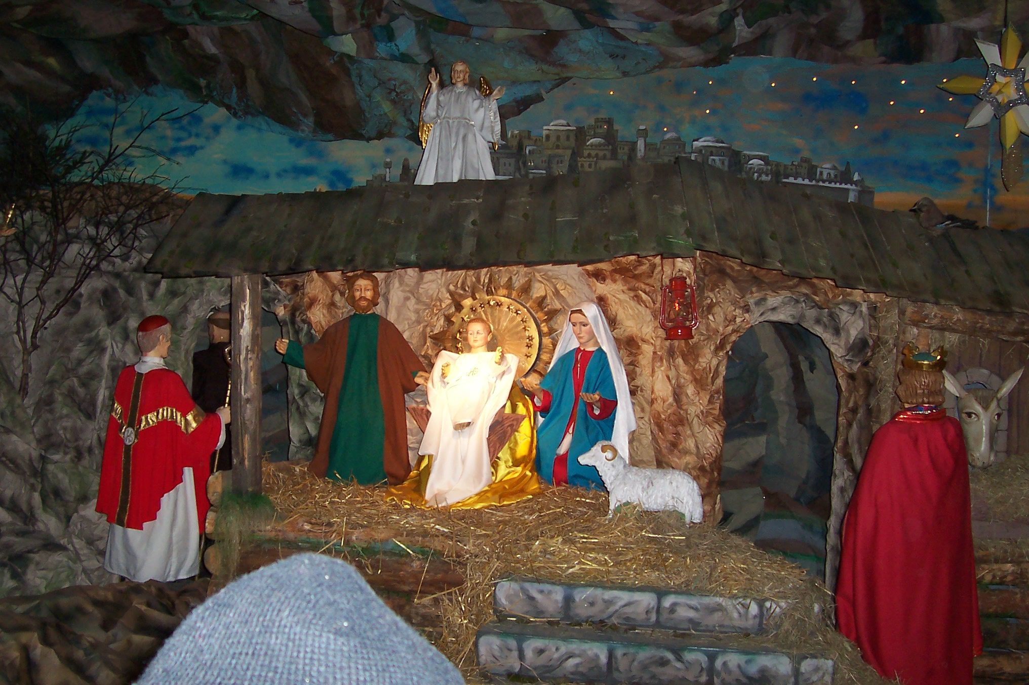 Moving crèche in Panewniki, Katowice